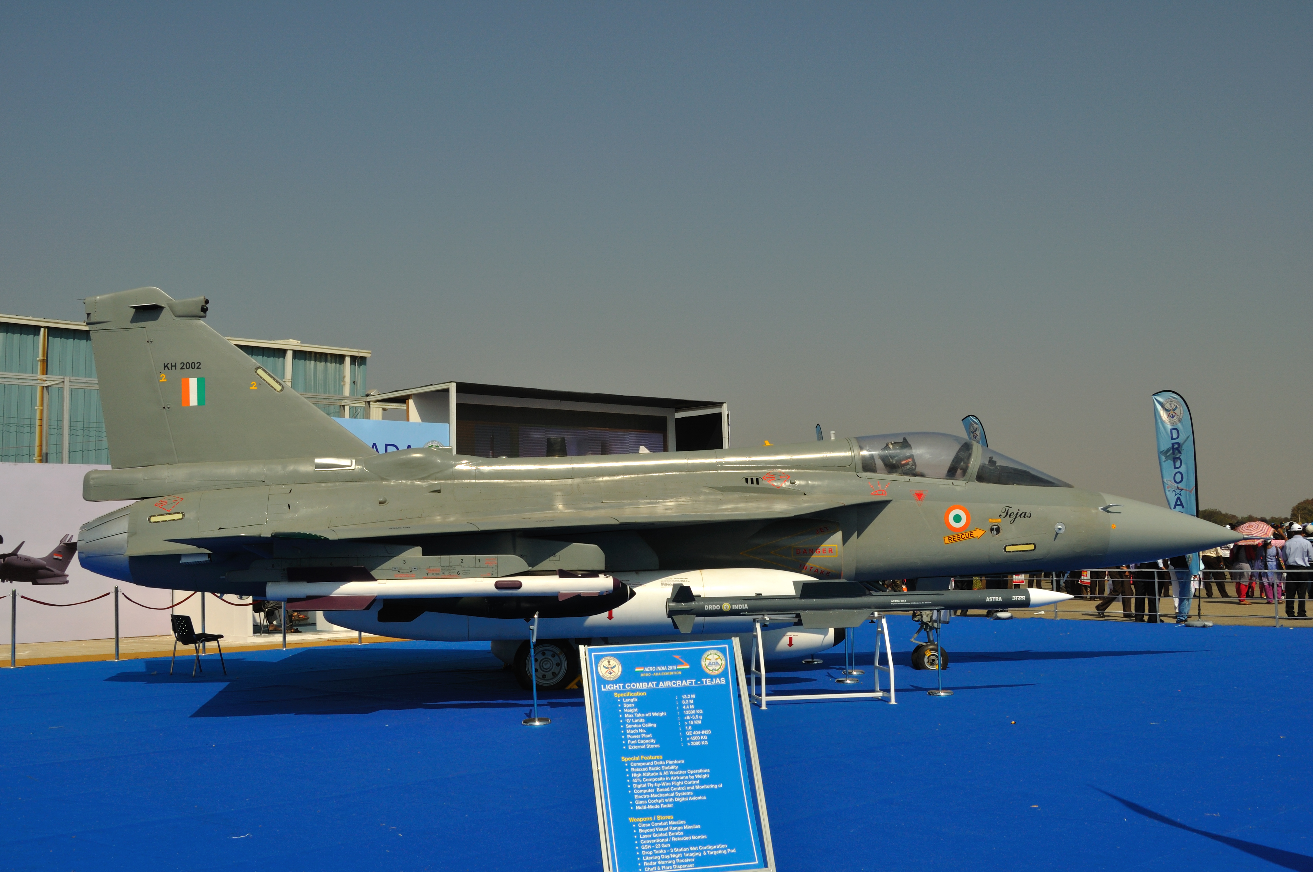 Tejas Light combat aircraft Tejas built by Hindustan Aeronautics Ltd